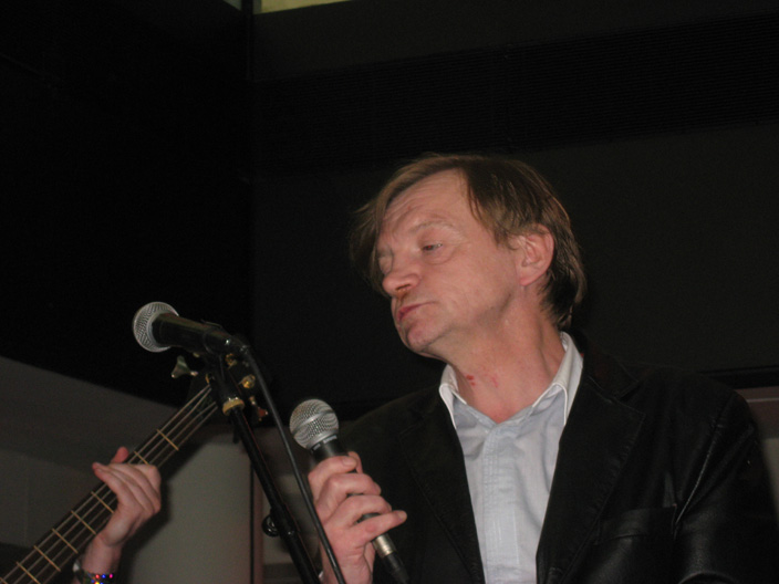 Mark E. Smith at The Fall gig at art show - Bloomberg Space, London